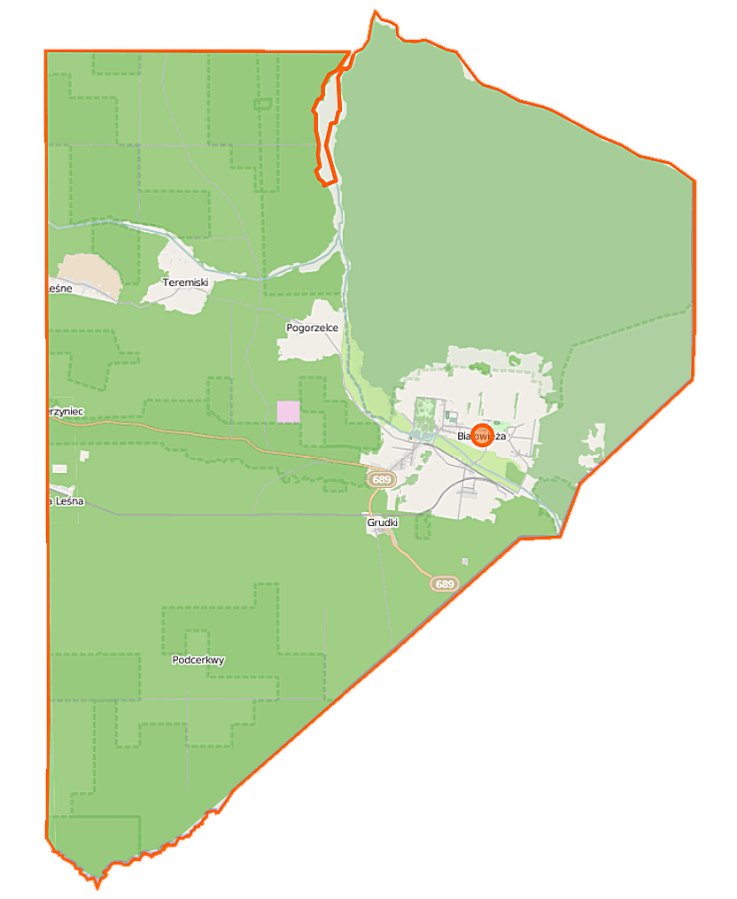 Map of Gmina Białowieża, Poland This map of Białowieża (gmina) was created from OpenStreetMap project data, collected by the community. This map may be incomplete, and may contain errors. Don't rely solely on it for navigation.